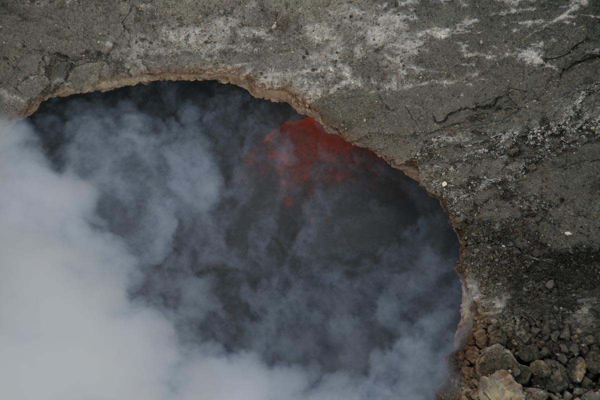 Lava lake in Halemaumau Crater vent shown in USGS Hawaii Volcano Observatory photo on September 5, 2008. This near-vertical view reveals a vigorously bubbling lava surface below the rim of the vent within Halema`uma`u crater. Continuous spattering was casting globs of lava across the lake surface and onto the conduit walls.